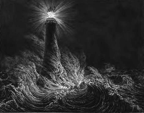 Bell Rock Lighthouse